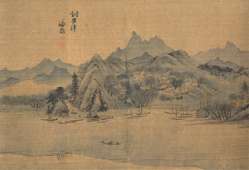 Dongjakjin